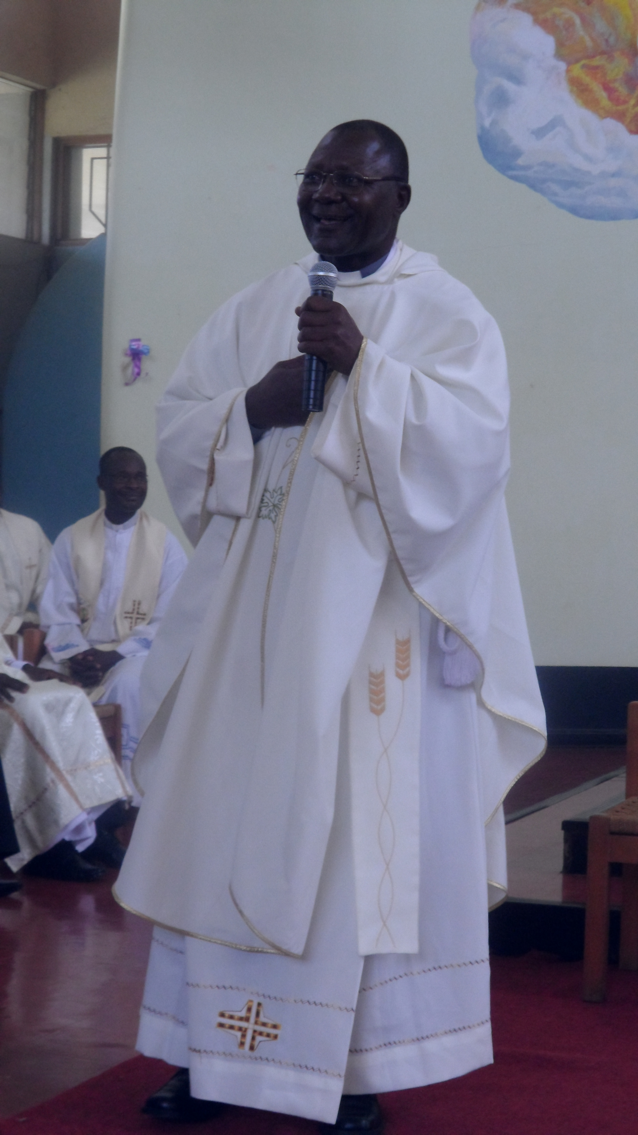 Mnsgr John Oballa Owaa address Seminarians and Parents on St. Thomas Family Day